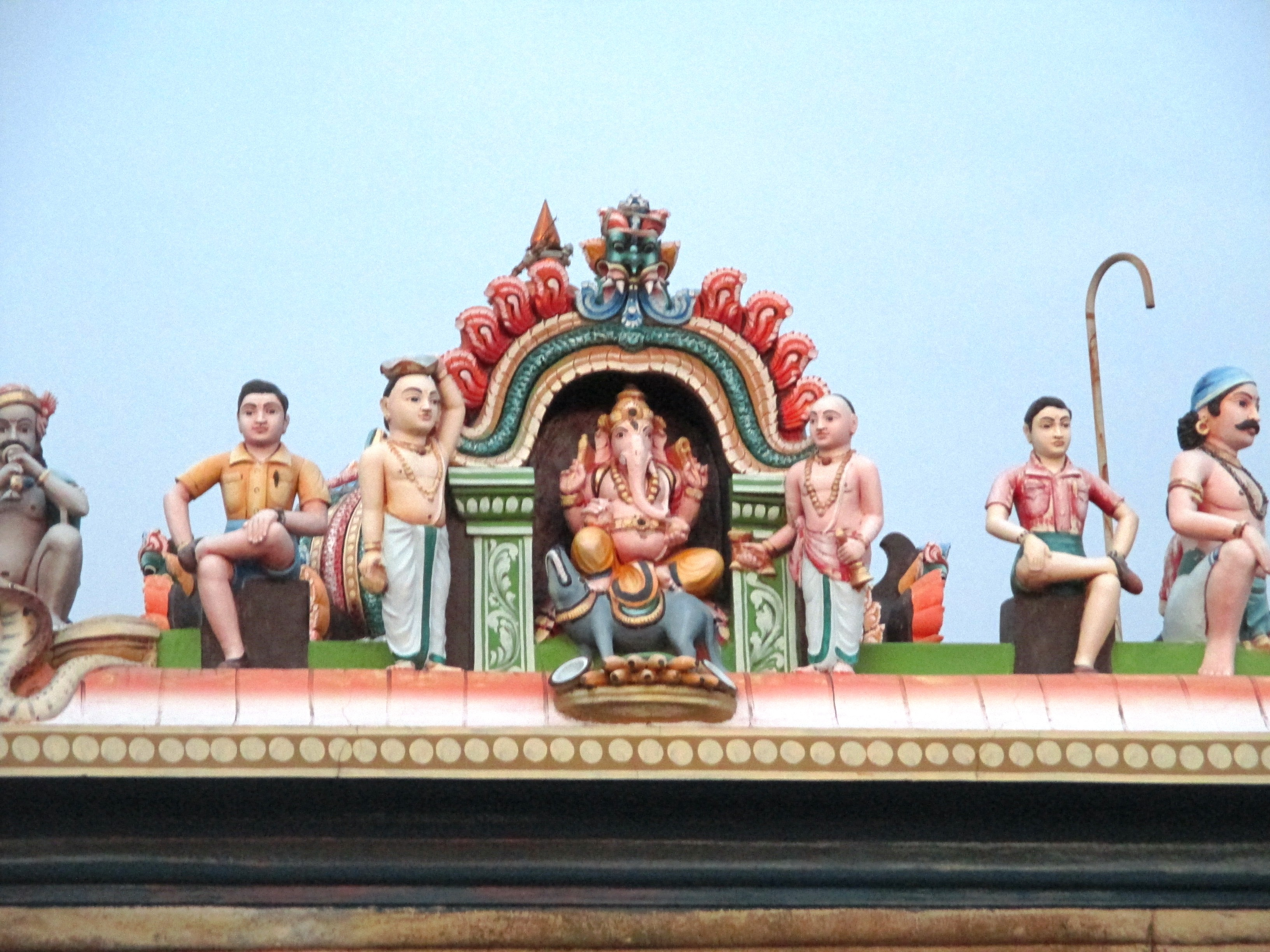 Kodumudi Magudeswarar temple